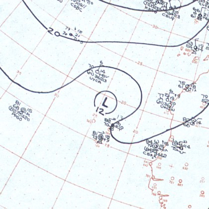 Surface analysis map of Tropical Storm Kendra on October 9, 1966